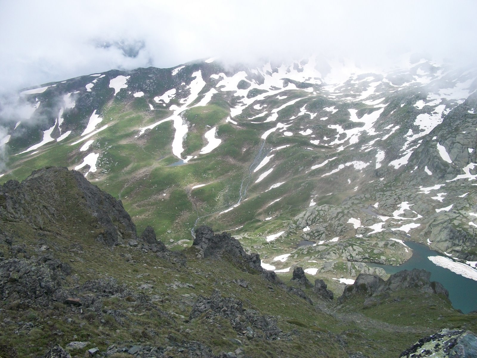 Photos from Heroid Shehu for Wikimedia Commons. Original Filename "Heroid_Shehu/Gjeravica 2010/f0838368.jpg"